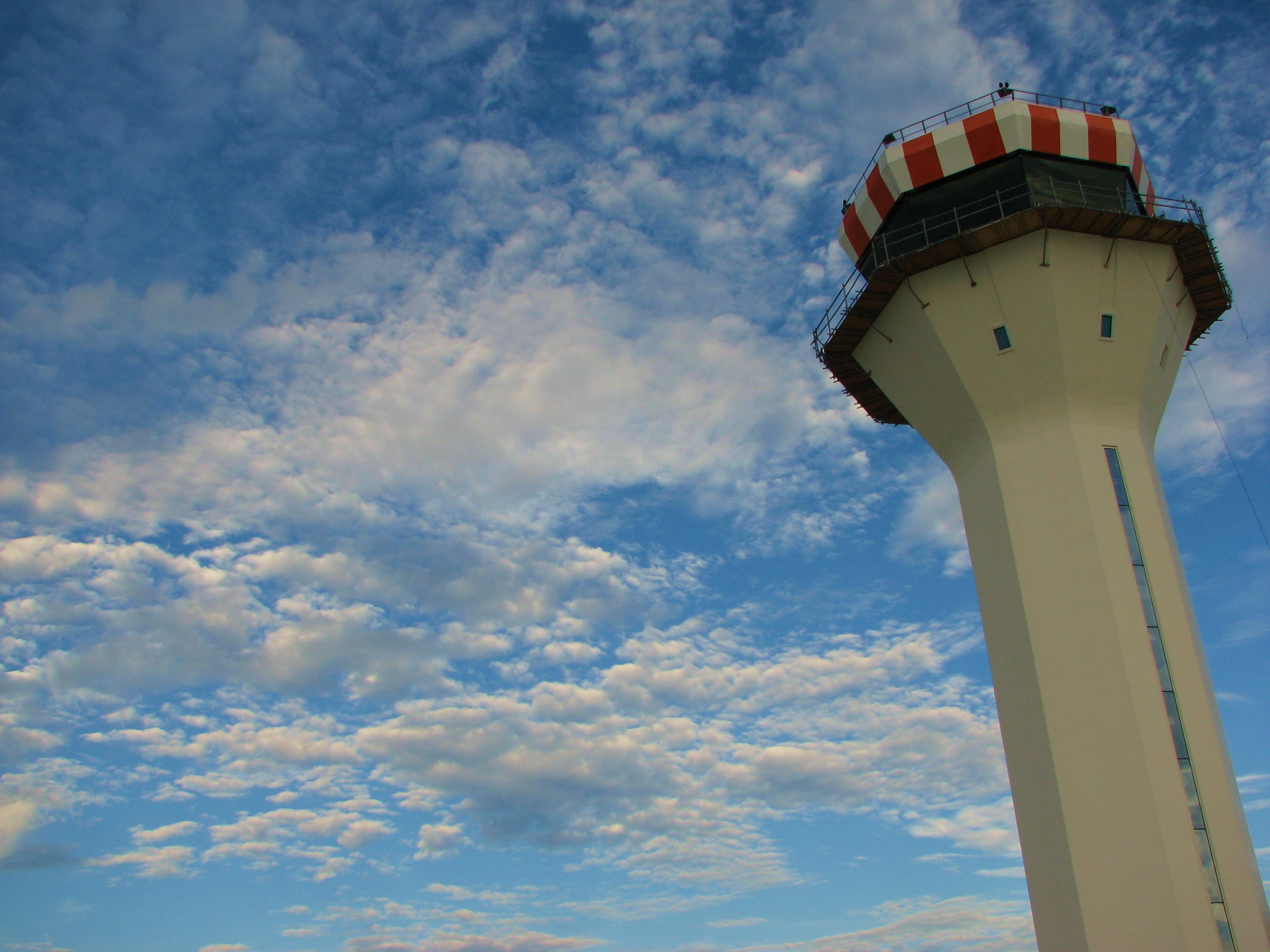 New Tower